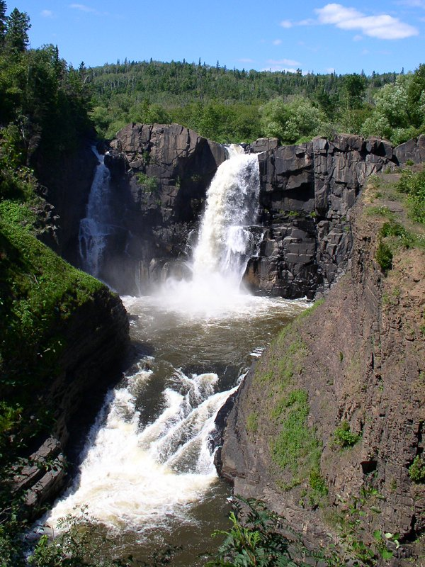 High Falls of the Pigeon River on the Canada–United States border, Grand Portage State Park, Minnesota, USA